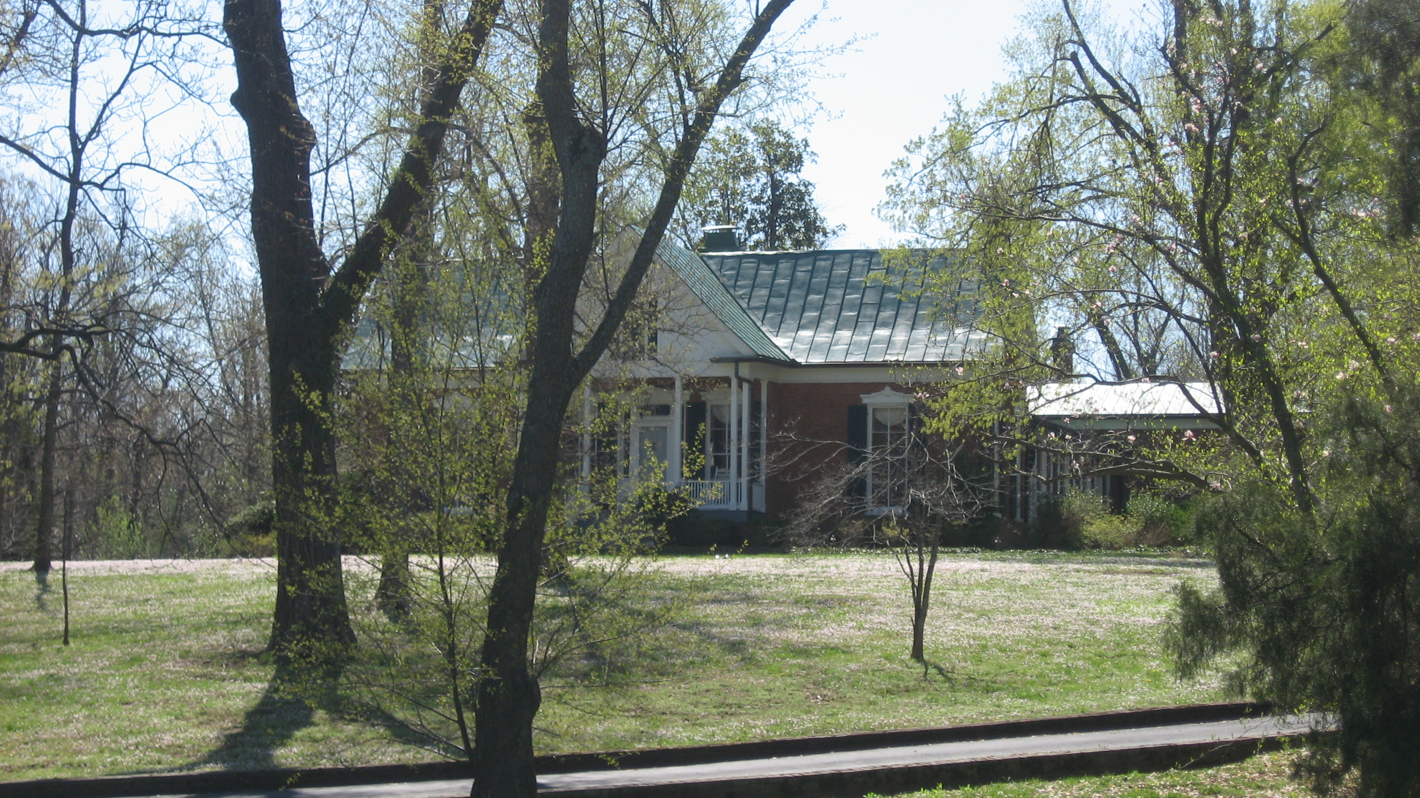 Front of The Angles, located on Alben Barkley Drive (U.S. Route 62) west of Fortieth Street in Paducah, Kentucky, United States. Built in 1853 and the home of Vice President Alben W. Barkley, it is listed on the National Register of Historic Places.